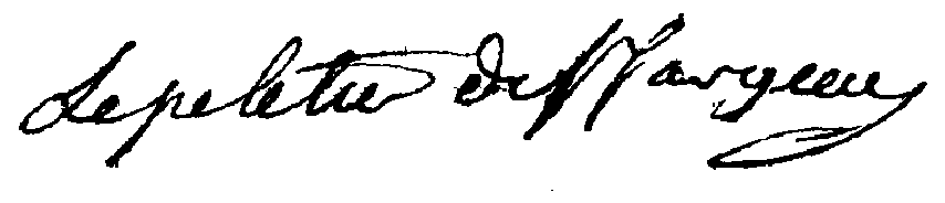 signature of Lepeletier de St Fargeau in 1789